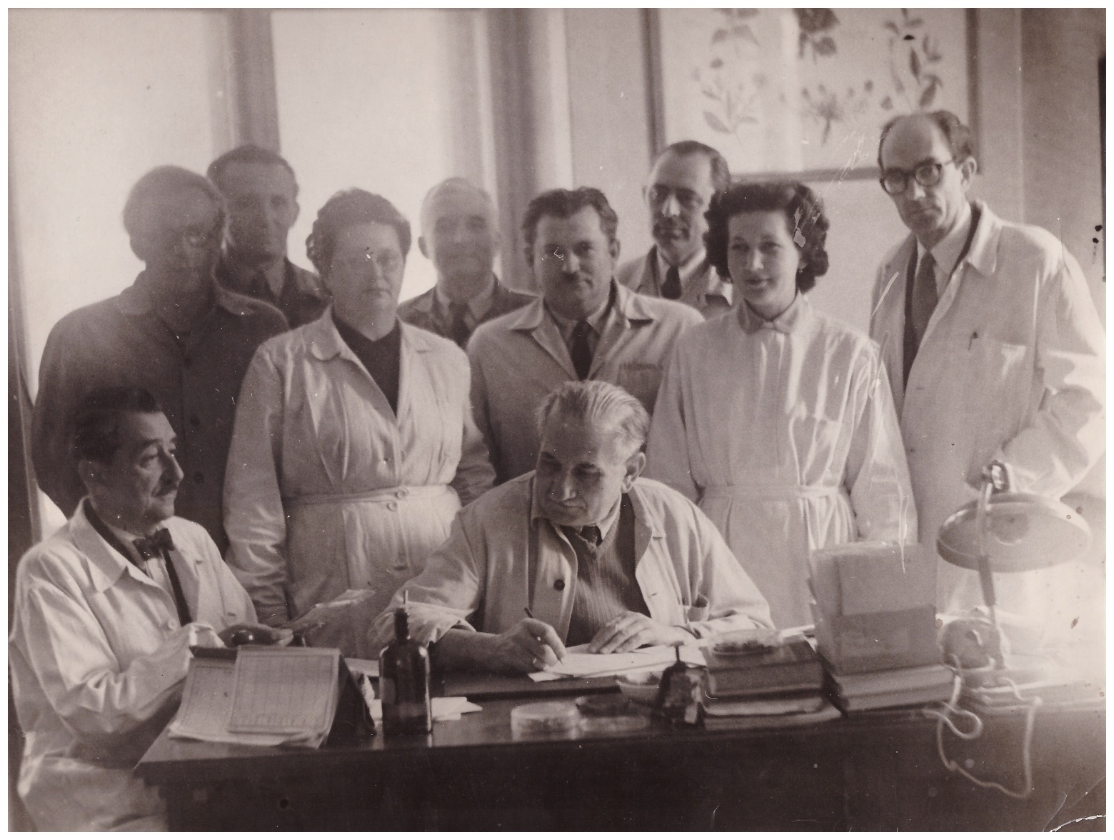 Giovannini is working